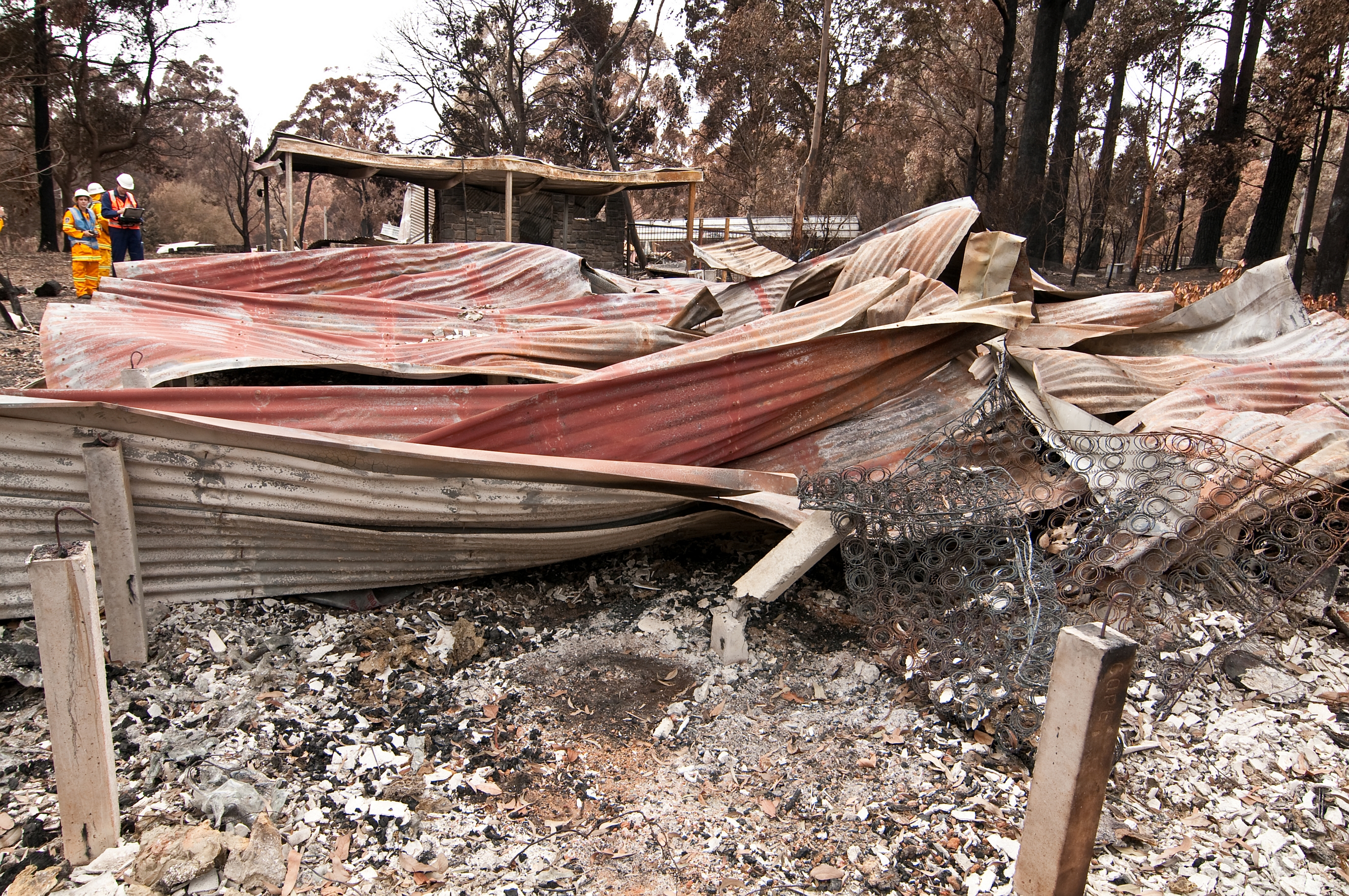 CSIRO is a participating agency in the Bushfire Cooperative Research Centre which has been looking at the key issues in the February 2009 bushfires. The CRC's Bushfire Research Task Force includes researchers from various state fire agencies and research organisations with expertise in building analysis, human behaviour, community education, bushfire behaviour, fire weather, and fire investigation. The purpose of the research is to provide fire and land management agencies with independent analyses of the factors surrounding the Victorian fires. CSIRO researchers from the Bushfire Dynamics and Applications Group, the Bushfire Urban Design project and the Remote Sensing team, will be involved with two areas of research: strategic fire behaviour - how the fires moved across different landscapes and different vegetation and under variable weather conditionsbuilding (infrastructure) and planning issues - patterns of loss and patterns of survival of build